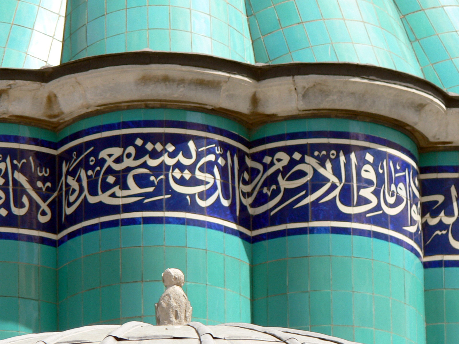 Mevlana Museum, Konya ( Turkey ). Green dome ( 1274 ) - arabic inscription.